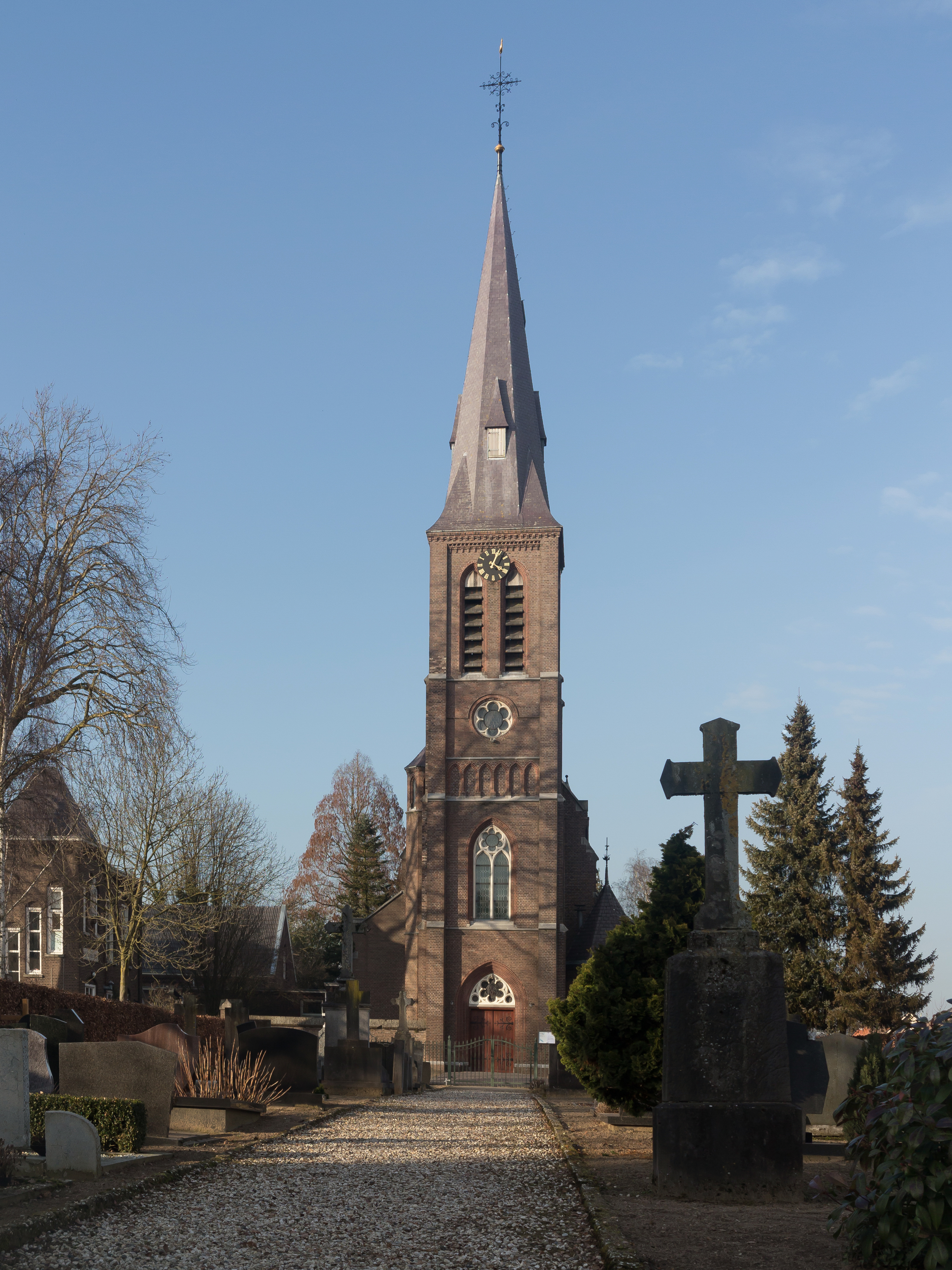 Nederasselt, church: de Sint Antonius Abt kerk